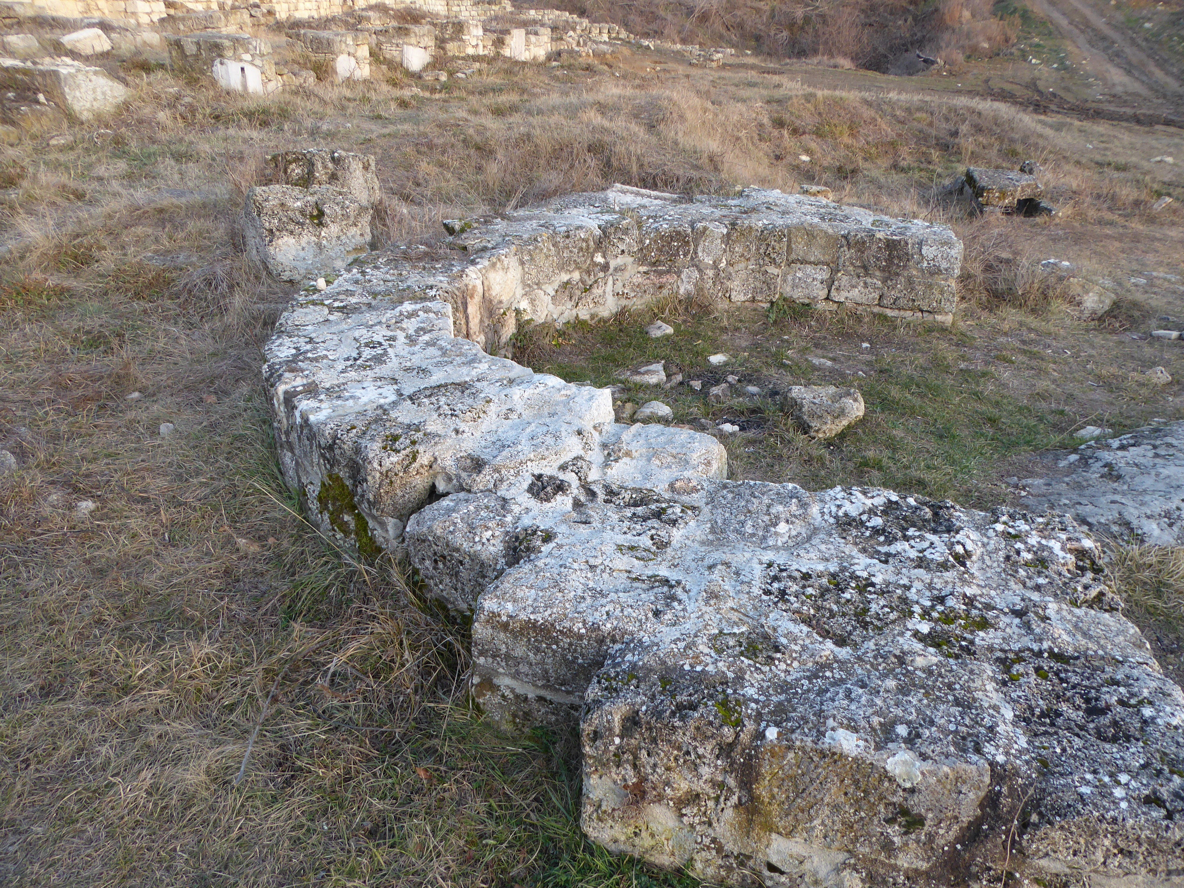 Royal Monastery „Holy Virgin“, Varna, Bulgaria, 9th century